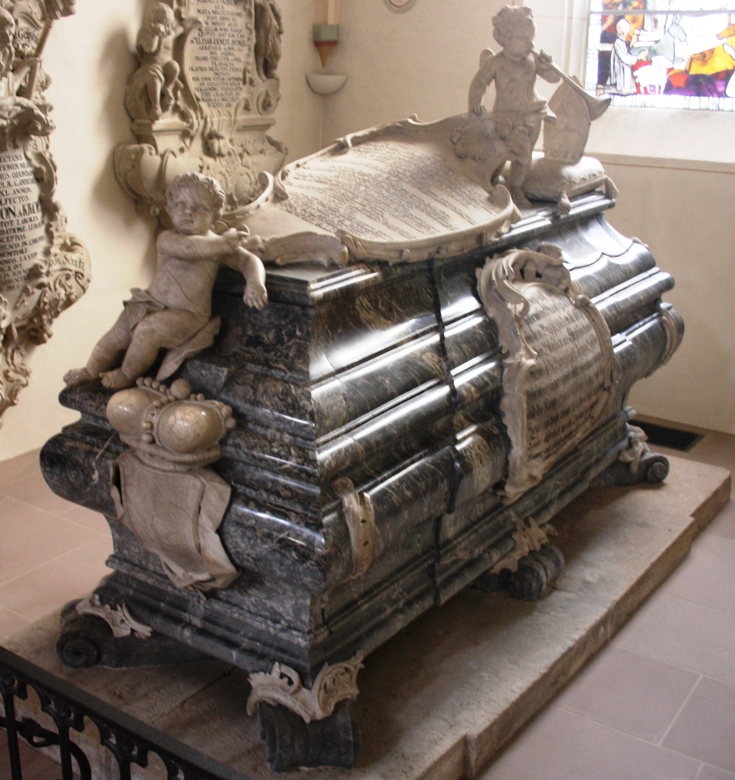 Abbeychurch in Gandersheim, Germany. Sarcophagus of abbess Elizabeth of Saxe-Meiningen (+1766).